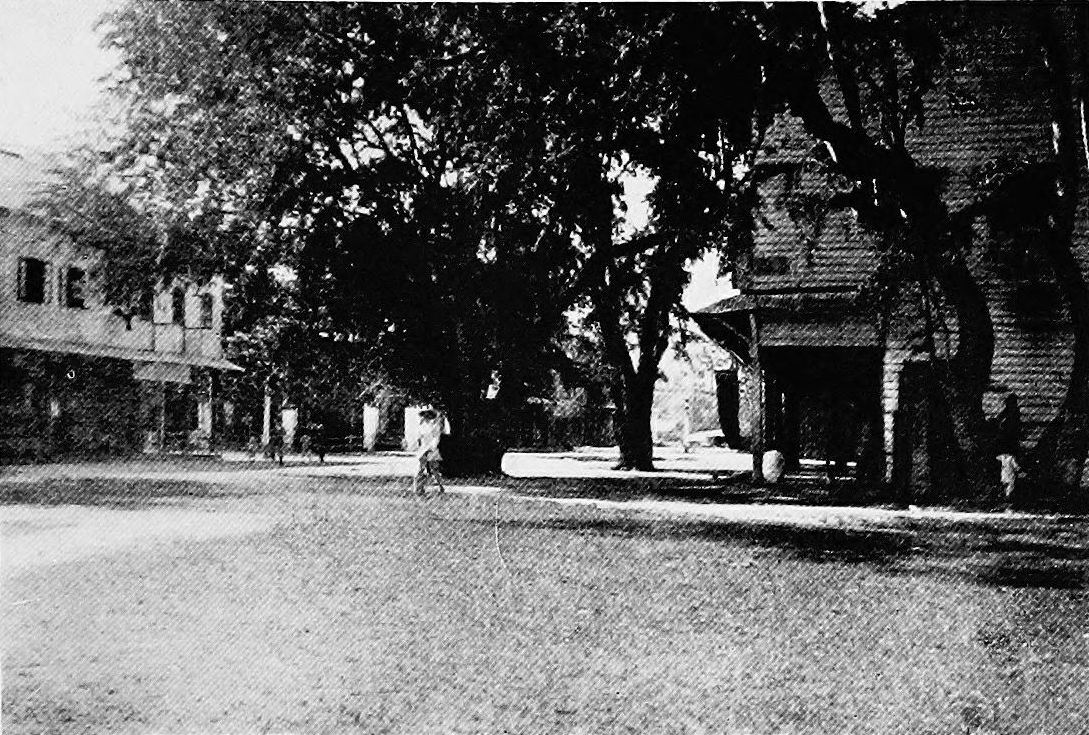 North Borneo Chartered Company: Kudat about 1910